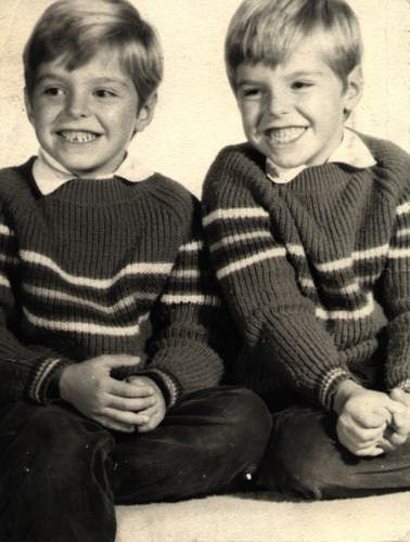 Dean and Dan Caten baby photo